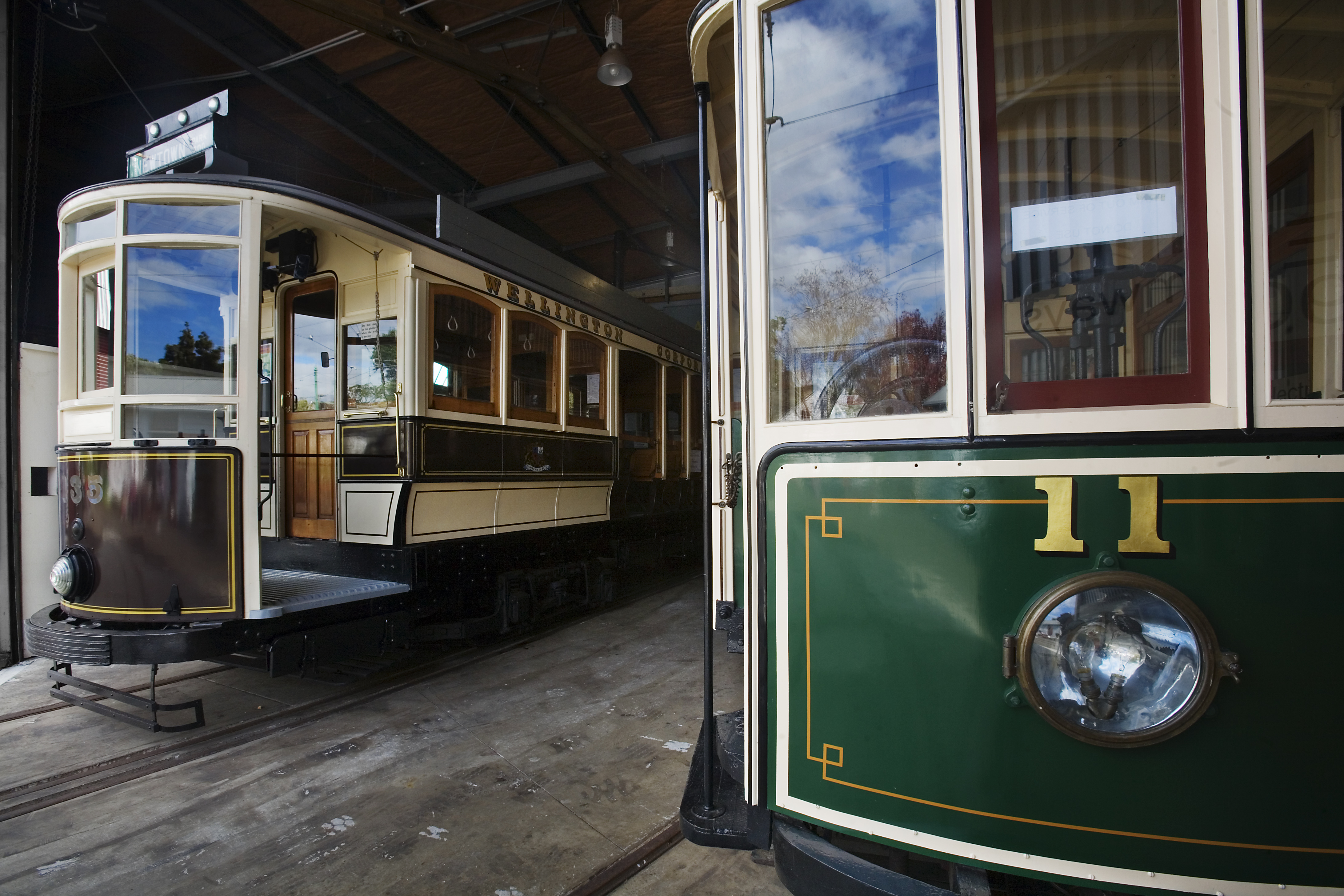 Classic Trams (Trolley cars) at Museum of Transport and Technology (MOTAT), Auckland, New Zealand